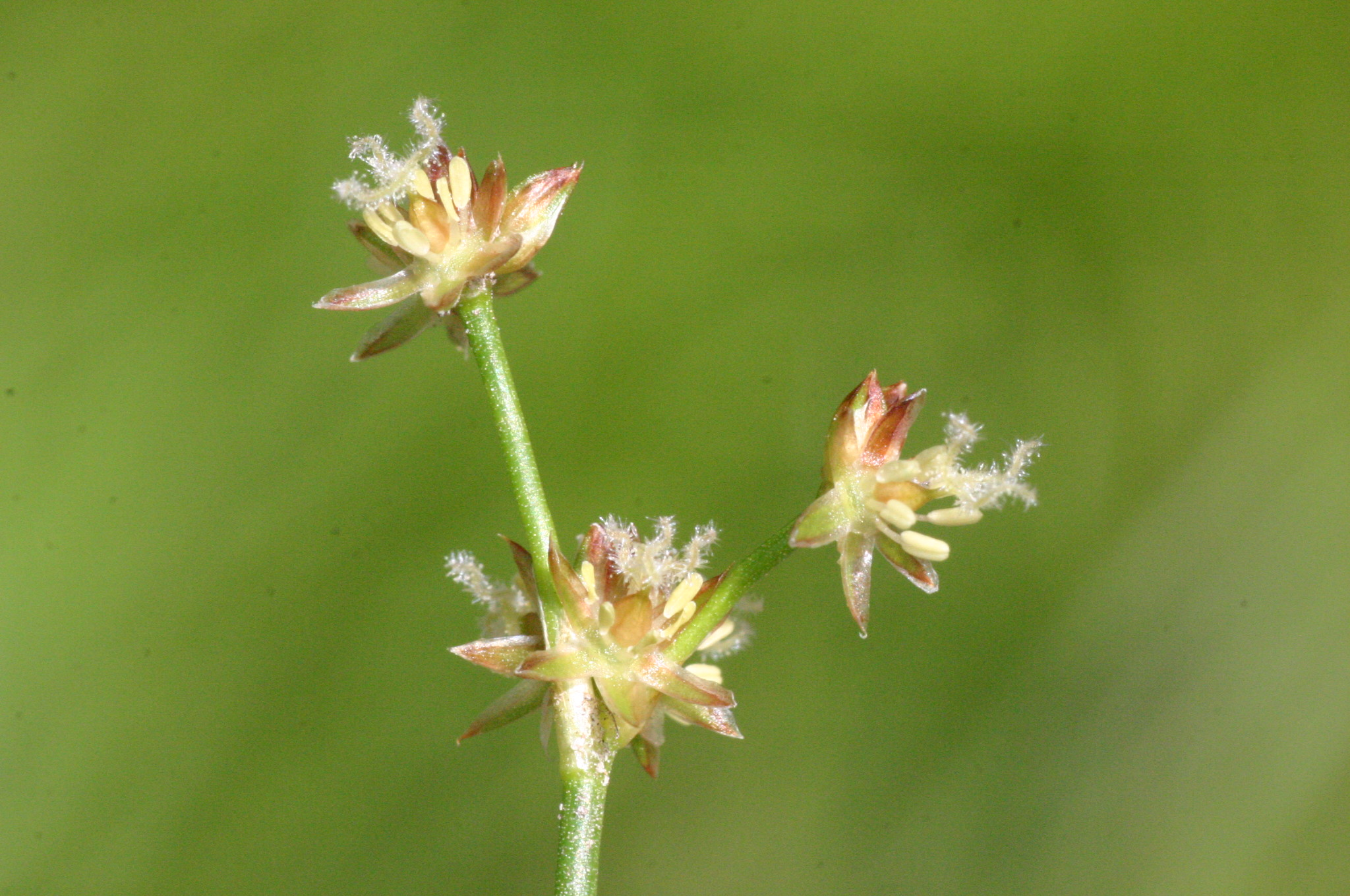 Juncus articulatus